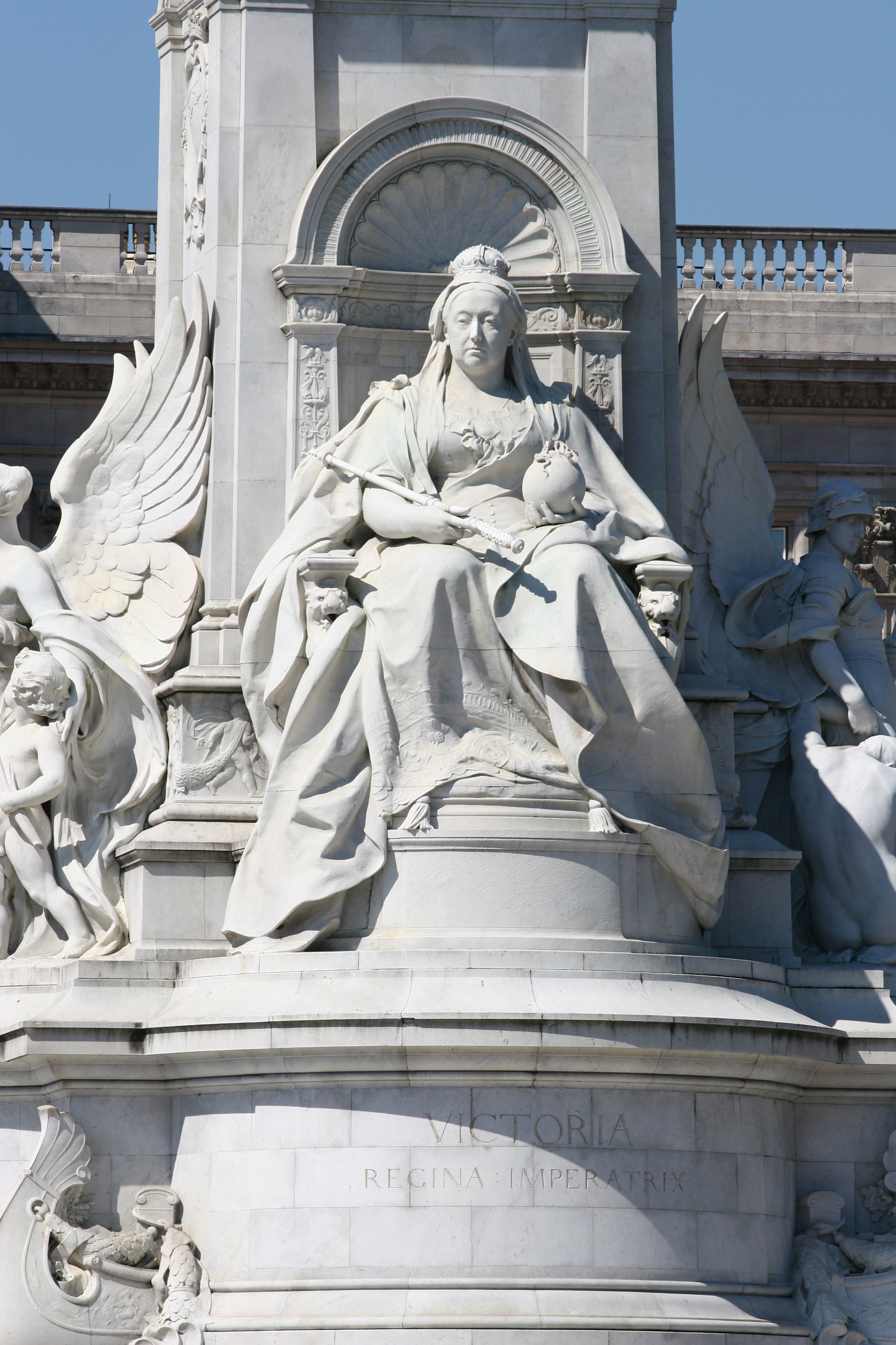 Statue of Queen Victoria by Thomas Brock, Victoria Memorial, London